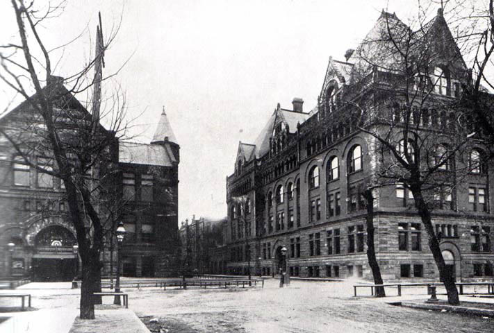 Looking southward on Federal St. at the Armour Institute of Technology main building. Later to become the Illinois Institute of Technology.